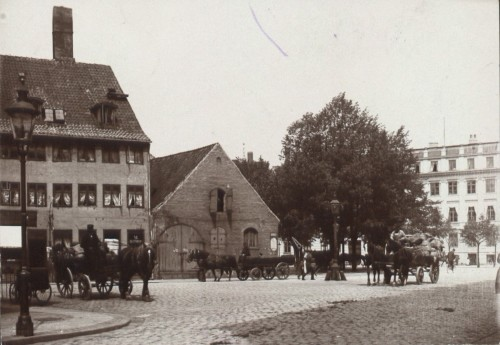 The corner of Store Strandstræde with Sankt Annæ Plads viewed from Lille Strandstræde in Copenhagen, Denmark